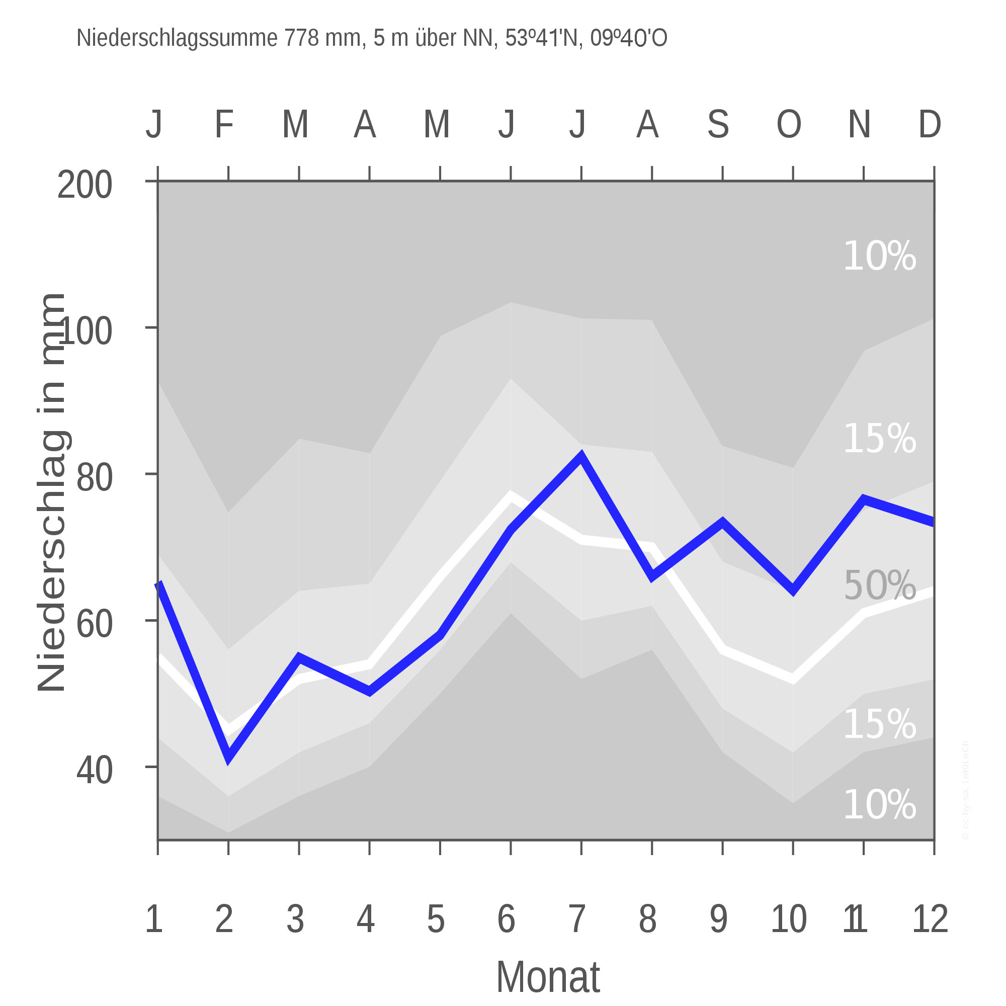 Mean Precipitation of Schleswig-Holstein over the period 1961 - 1990